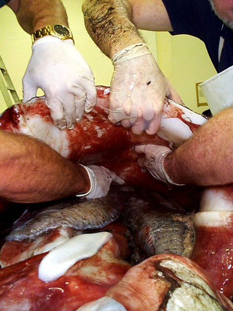 Photo from In Search of Giant Squid - 1999 Expedition Journals, Smithsonian Institution.